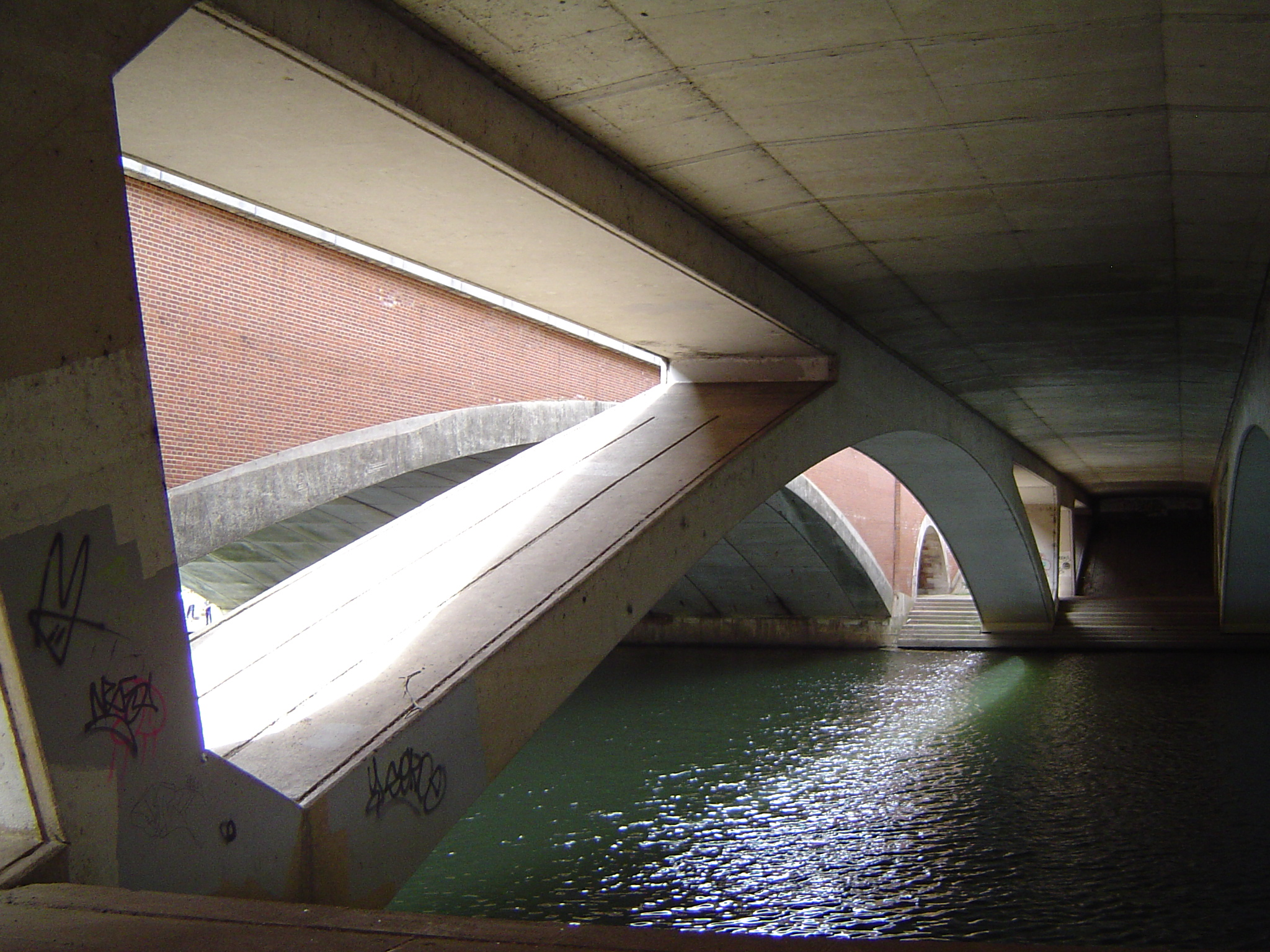 M25 Runnymede Bridge River Thames near Egham